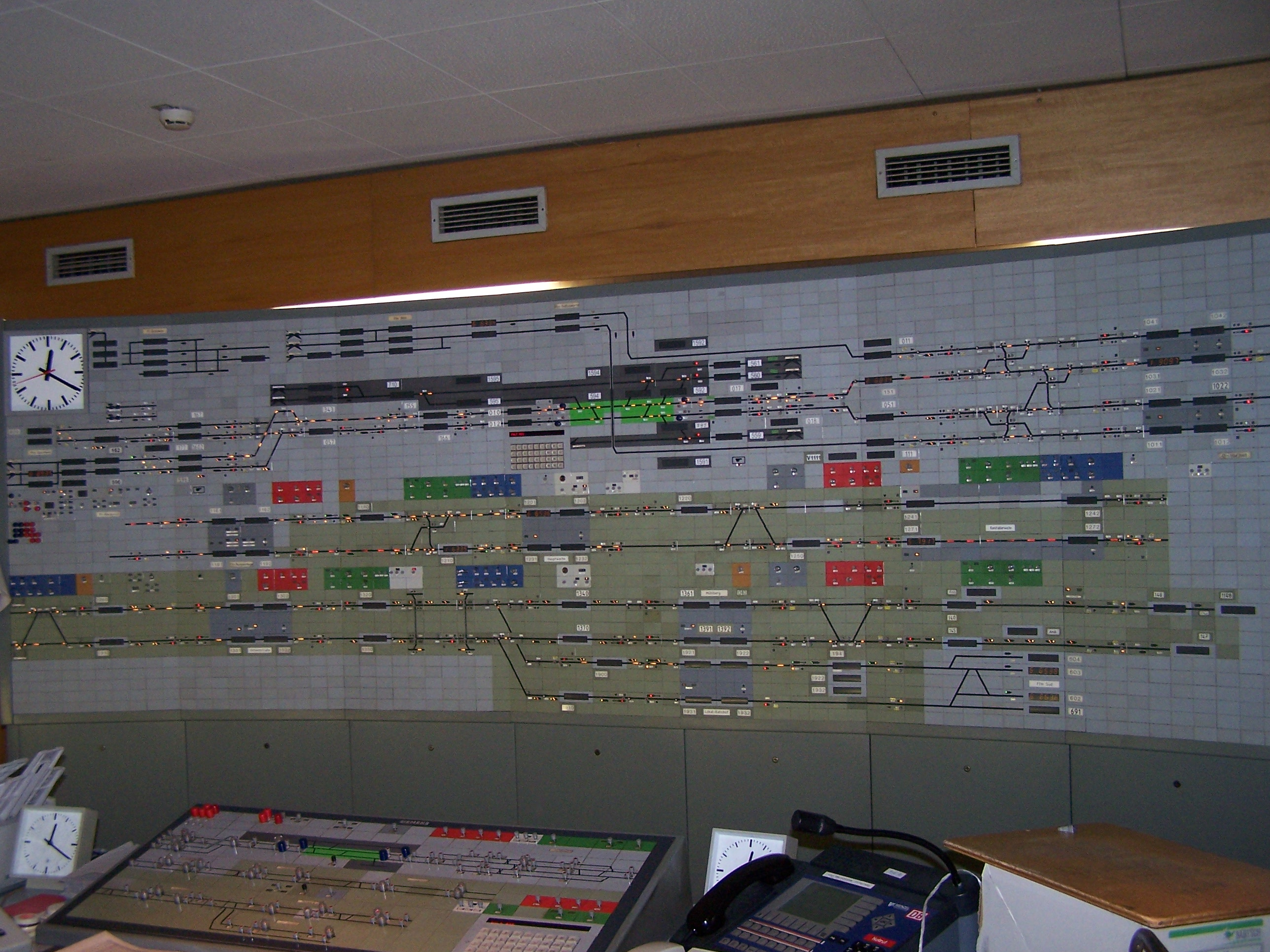 Railway control centre in Frankfurt (Main) – central station sub level